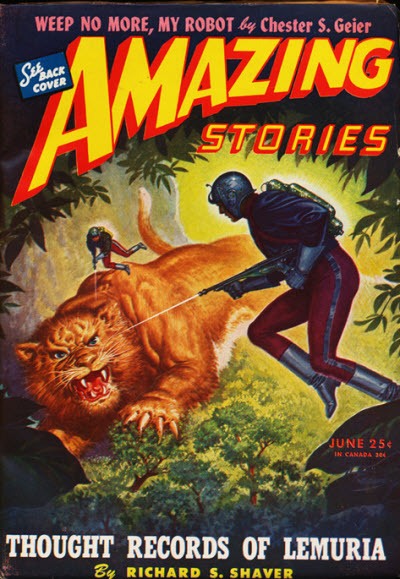 Copy of Amazing Stories,June 1945